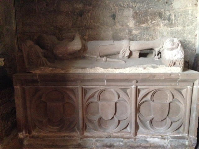 Photograph of Effigy of Sir Thomas Bottiler in St Laurence Parish Church, Meriden, West Mids.